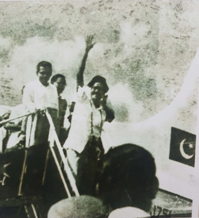 Sheikh Mujibur Rahman returning home with Manik Miah after declaring Six Points at Lahore